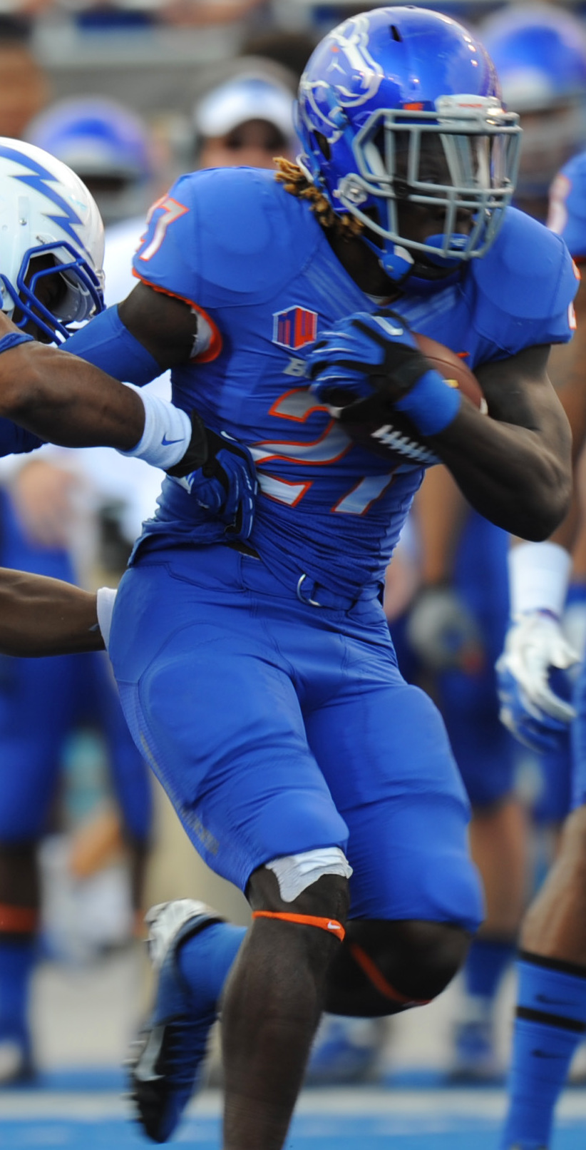 Jay Ajayi in Sept 2013